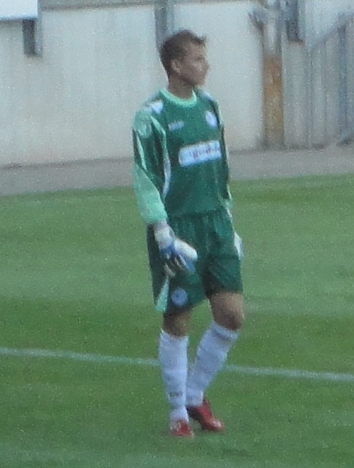 Patrick Platins, german goalkeeper, in the dress of the german football club Arminia Bielefeld in 2011.